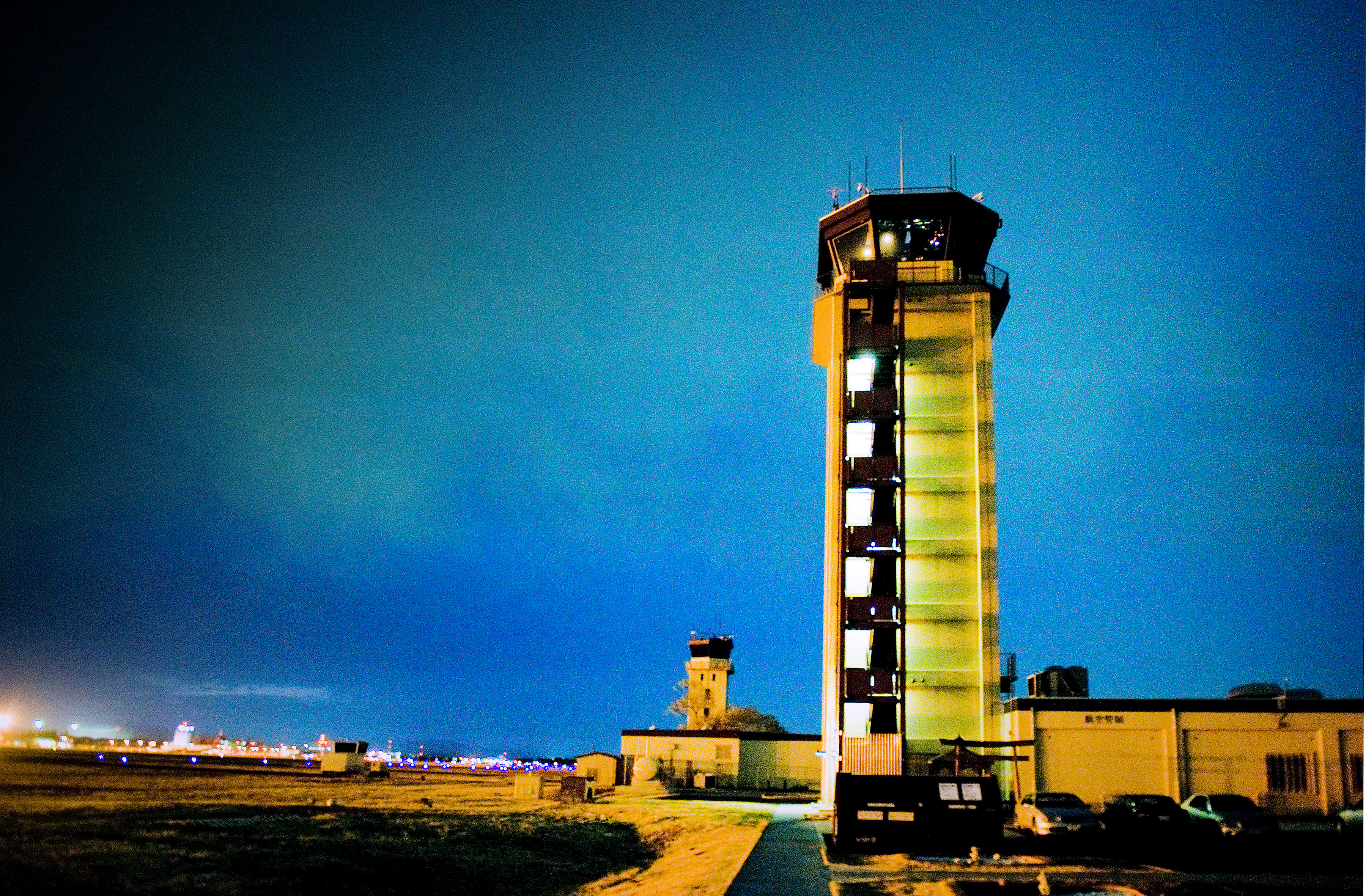 The air traffic controller tower overlooks entire flight line at Yokota Air Base, Japan, March 24, 2011. Yokota's flight line has received more than triple the amount of aircraft than normal due to Operation Tomodachi. Military and civilian aircraft from multiple nations have been transporting supplies, personnel and equipment in direct support of relief efforts. (U.S. Air Force photo by Staff Sgt. Jonathan Steffen)